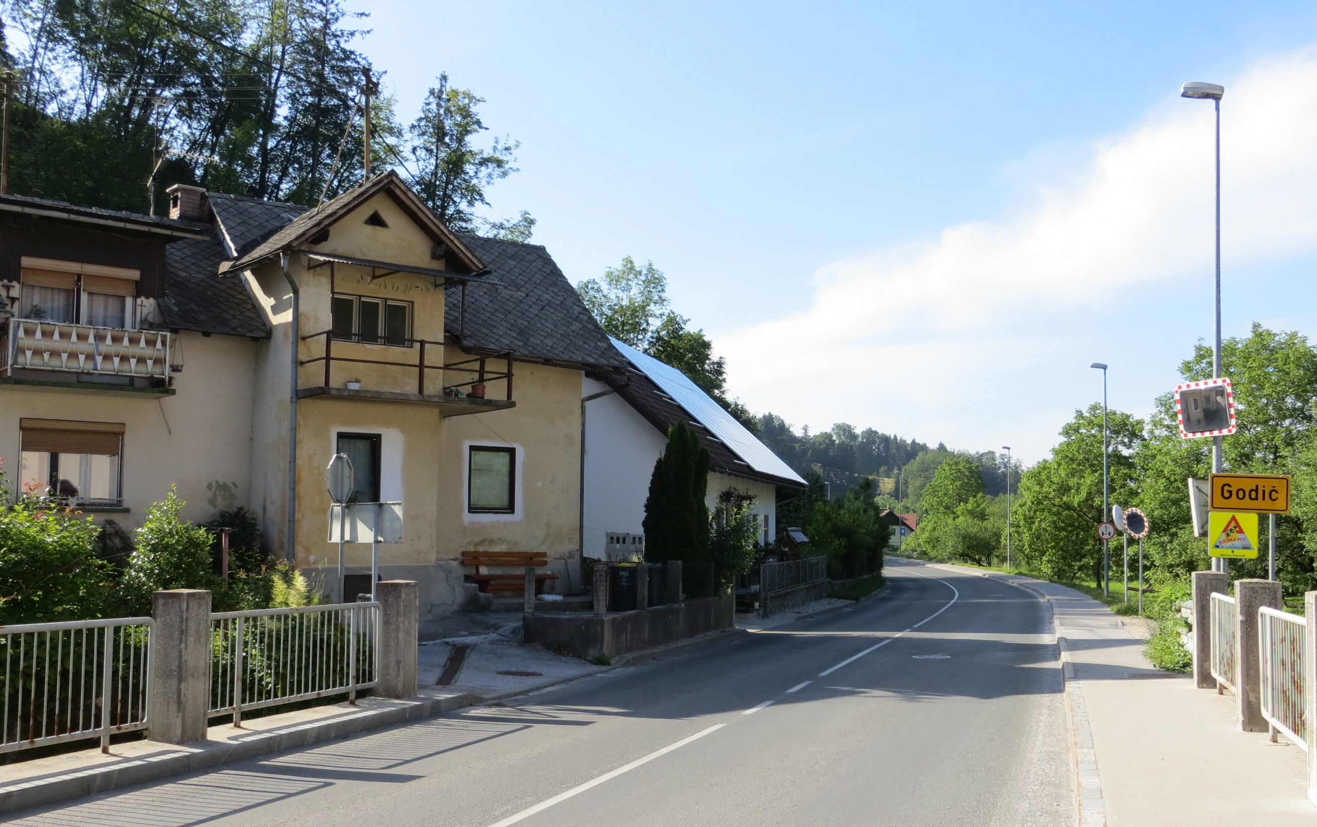 Godič, Municipality of Kamnik, Slovenia